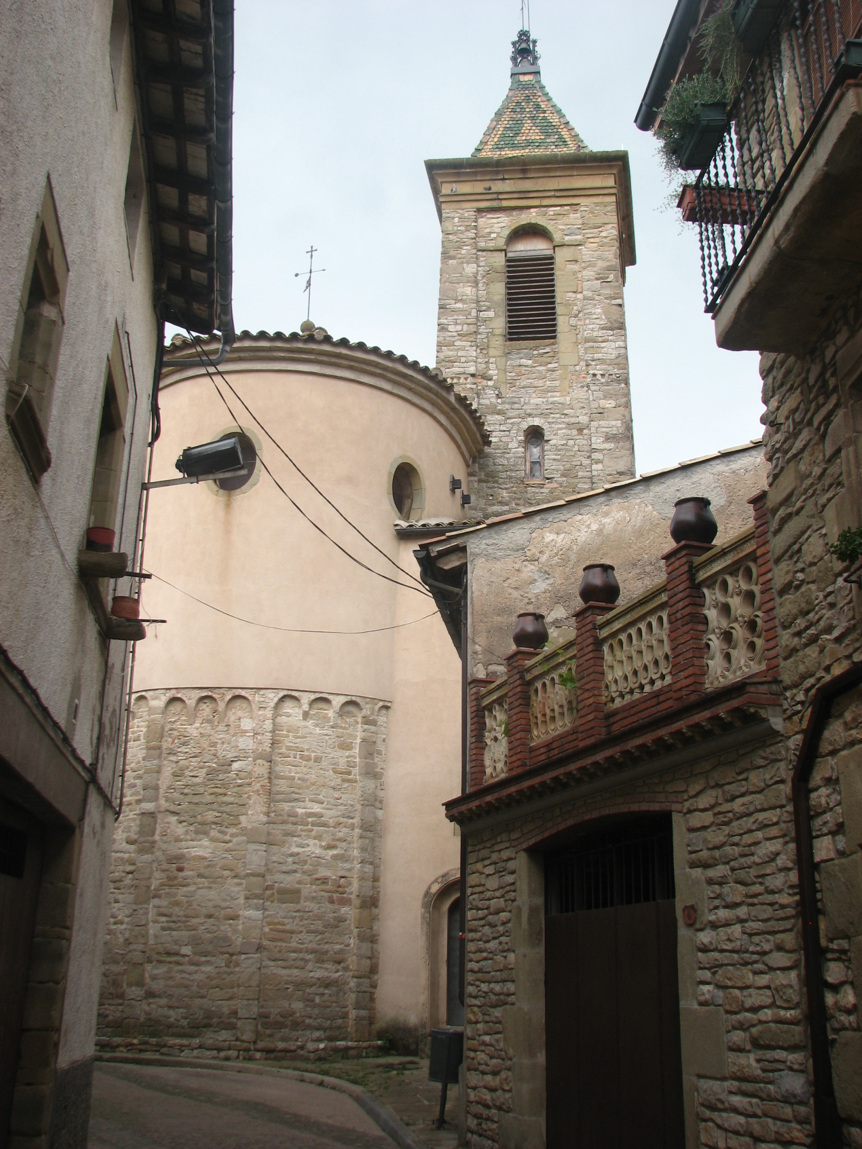 Església parroquial de Sant Julià de Vilatorta (Sant Julià de Vilatorta)